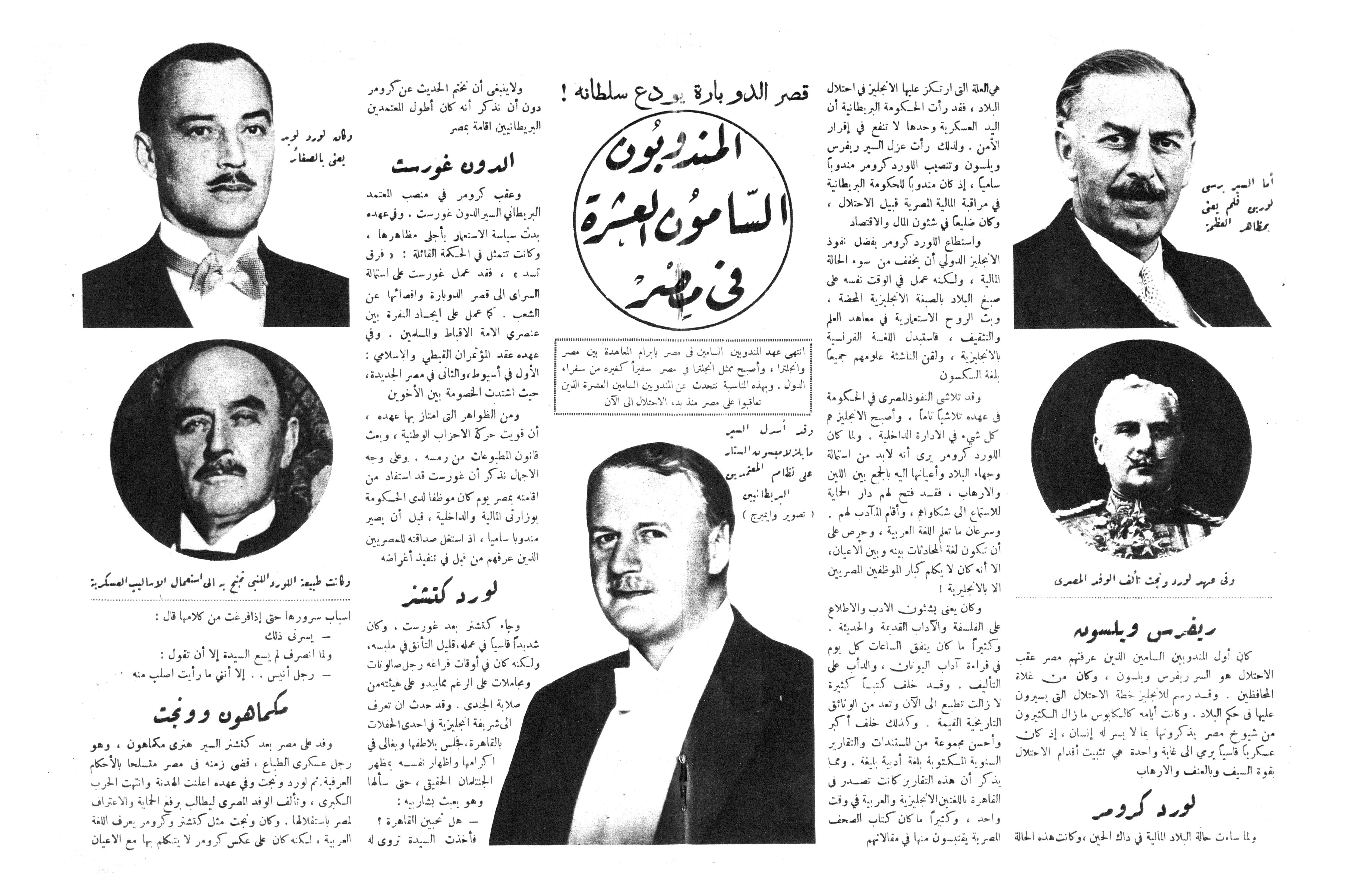 A 1936 article from the Egyptian magazine Kol Shay' wal Donya (كل شيء والدنيا) describing each one of the United Kingdom's High Commissioners to Egypt. The five photographs are those of: George Lloyd, 1st Baron Lloyd (upper left) Edmund Allenby, 1st Viscount Allenby (lower left) Miles Lampson, 1st Baron Killearn (middle) Sir Percy Loraine, 12th Baronet (upper right) Reginald Wingate (lower right)